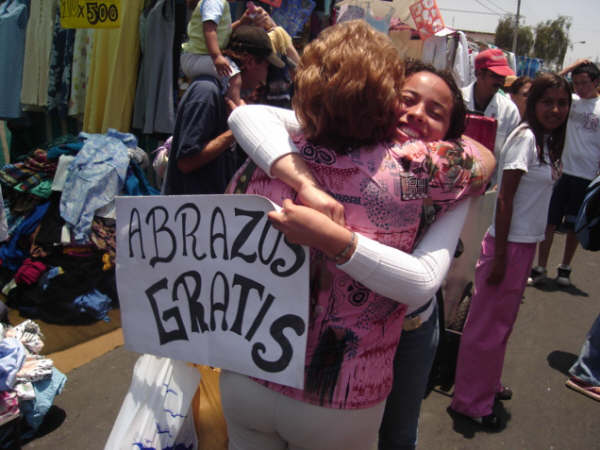 'FREE HUGS' in a marketplace, Chile